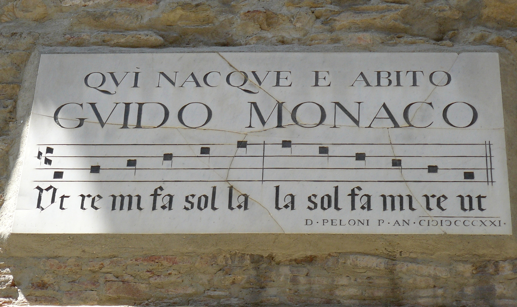 Plaque of Guido Monaco in Arezzo, he created the system of sol-fa (usually known in English as "Do-Re-Mi").